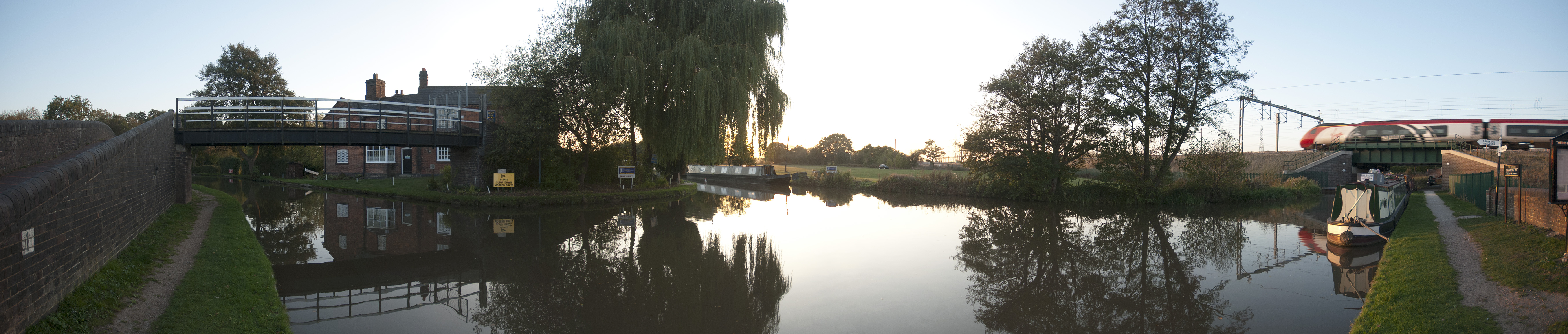 Panorama of Huddlesford Junction